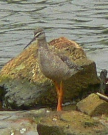 Spotted Redshank